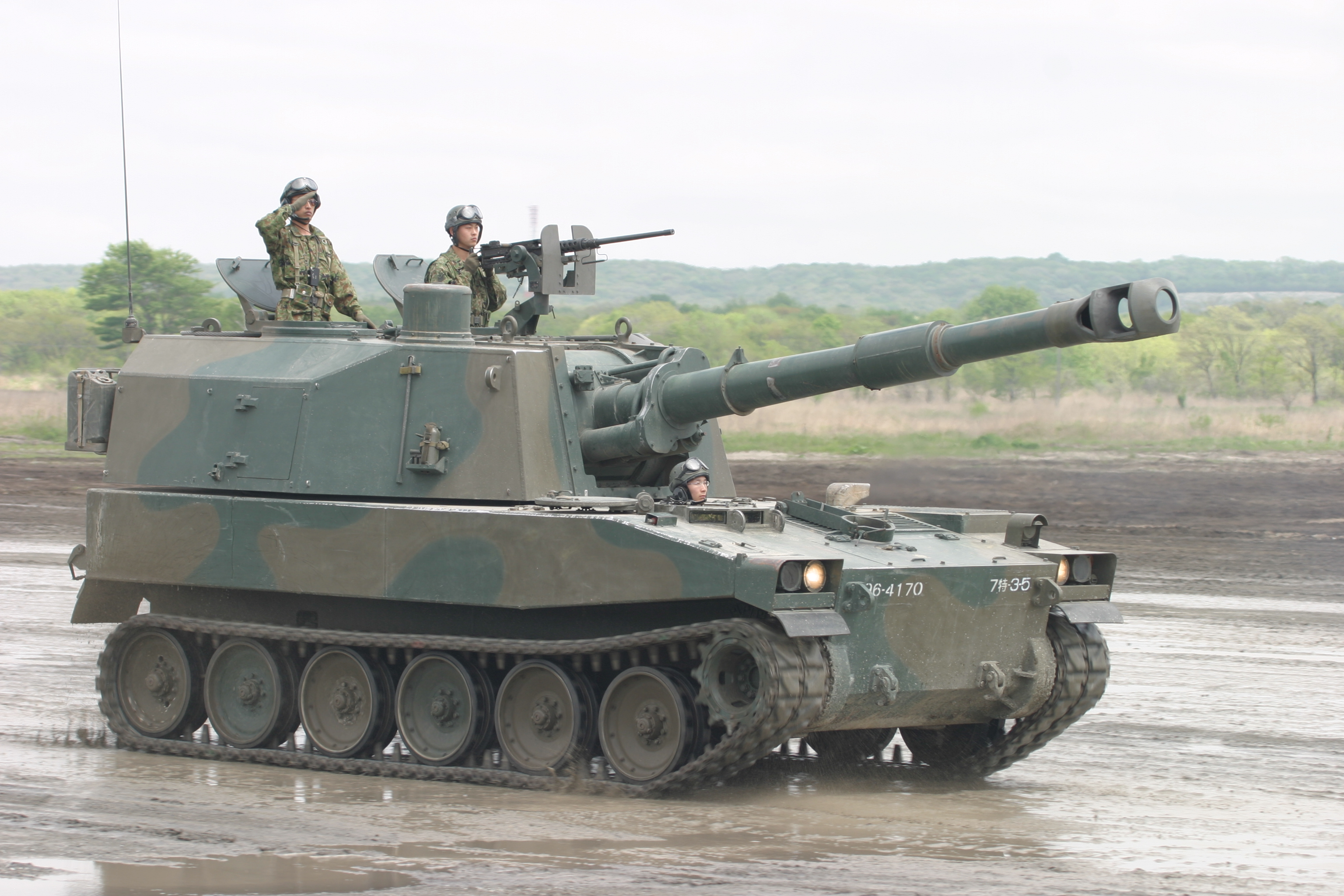 Subject: Type75 15HSP of the JGSDF displayed at JGSDF CAMP Higasichitose Source: photo by EarlyBird, taken